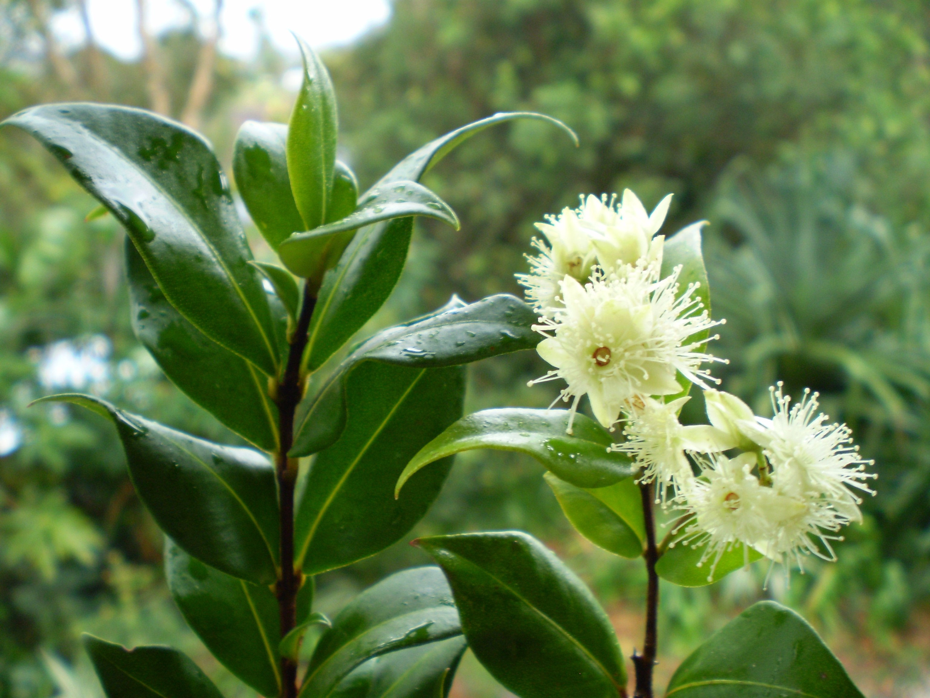 Flower and leaf of Cinnamon myrtle, elemicin chemovar.